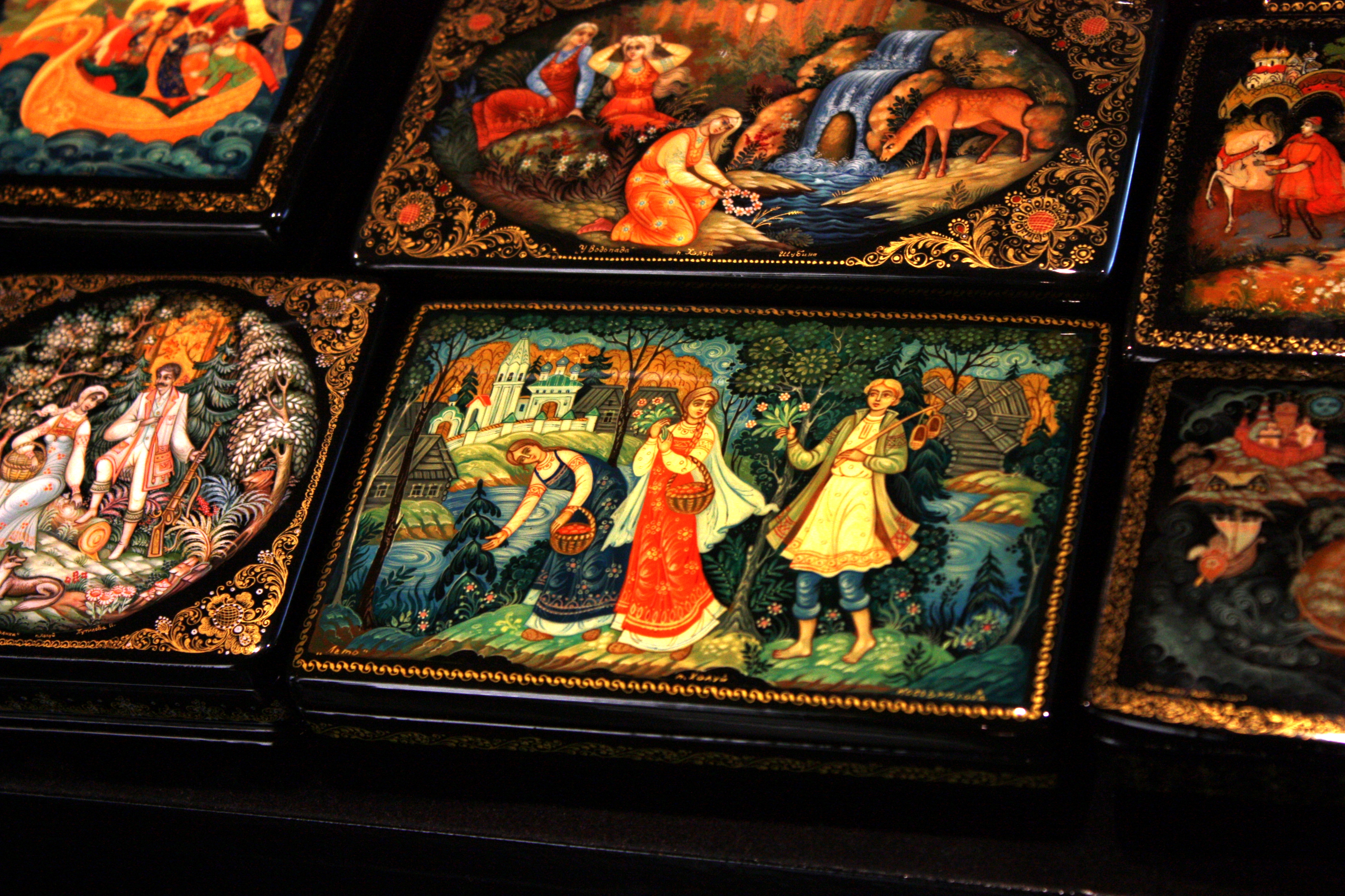 Russian lacquer art, russische Lackminiaturen, St. Petersburg, 2009, magazin Berjoska, for foreign tourists